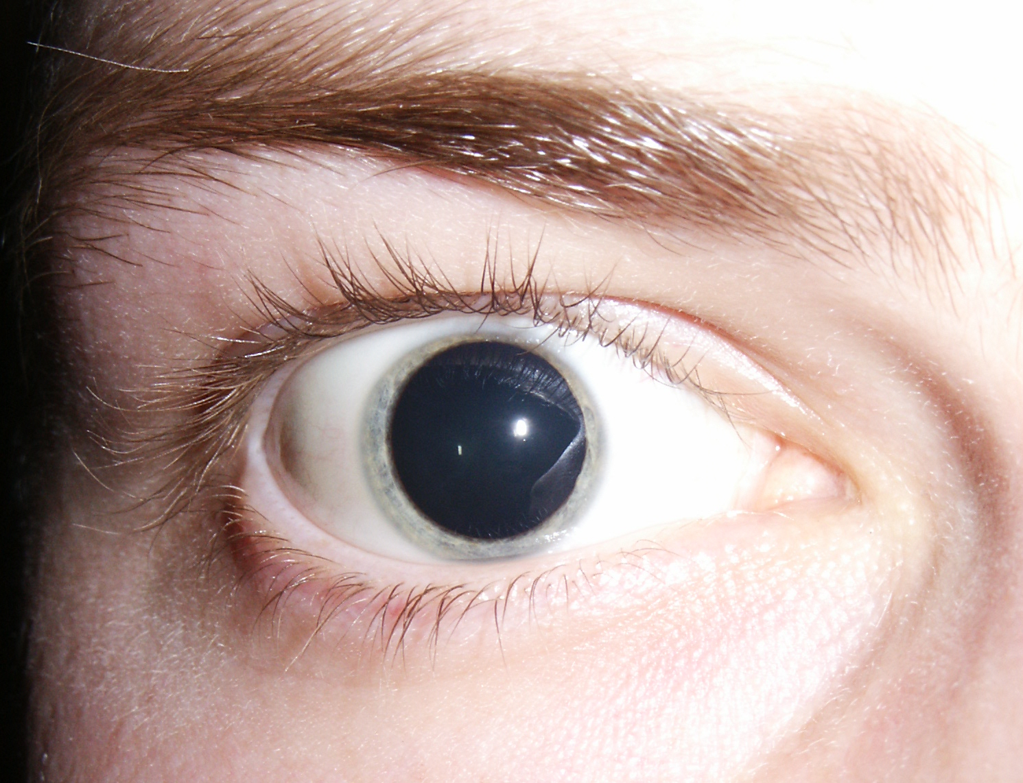 Dilated pupils after an optometrist appointment.